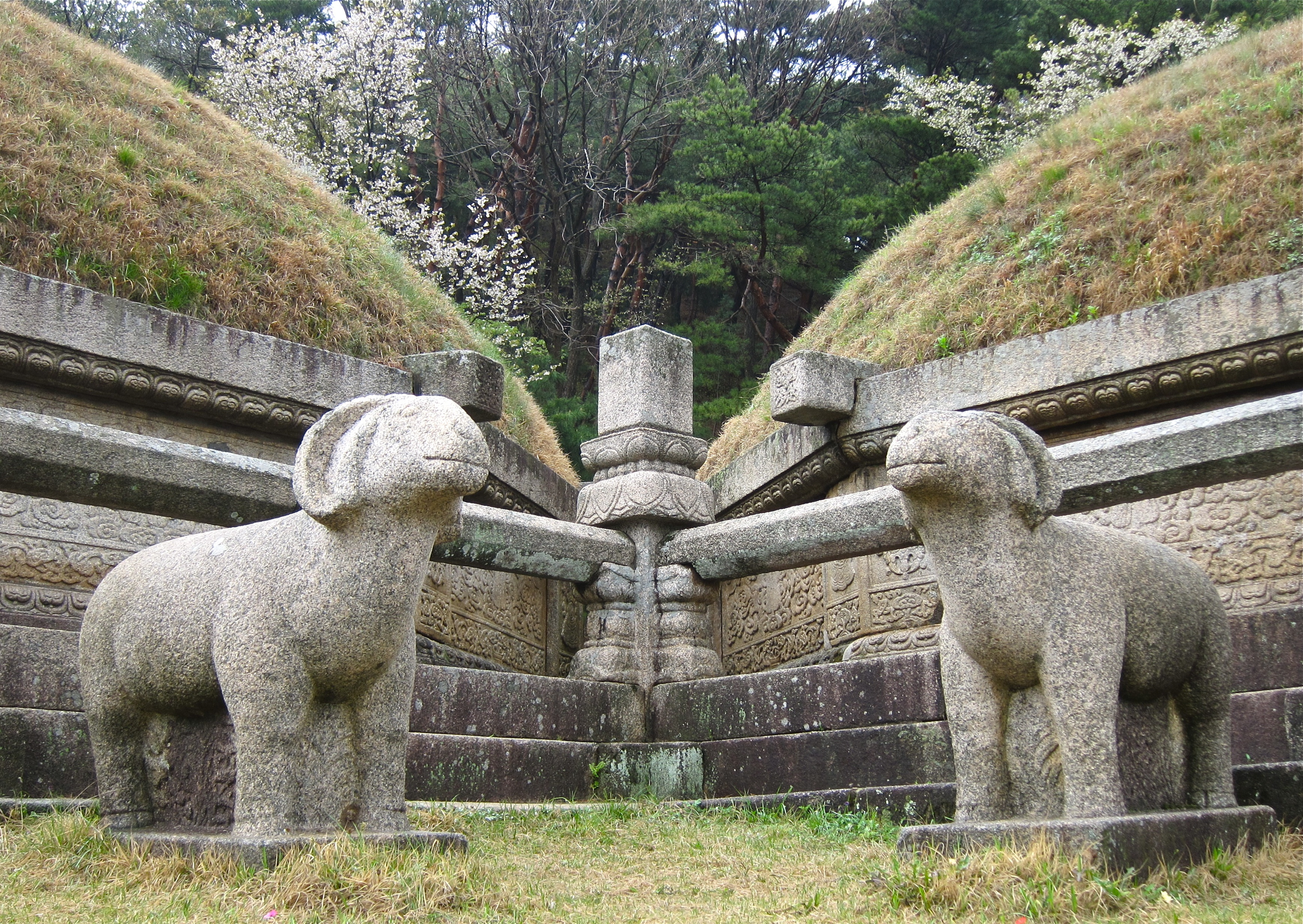 Stone Sheep at the 14th century Tomb of King Kongmin (Hyonjongrung Royal Tomb) - Goryeo Dynasty.. It is one of the Royal Tombs of the Koryo (Goryeo) Dynasty. Located near Kaesong (Gaeseong), DPRK-North Korea.